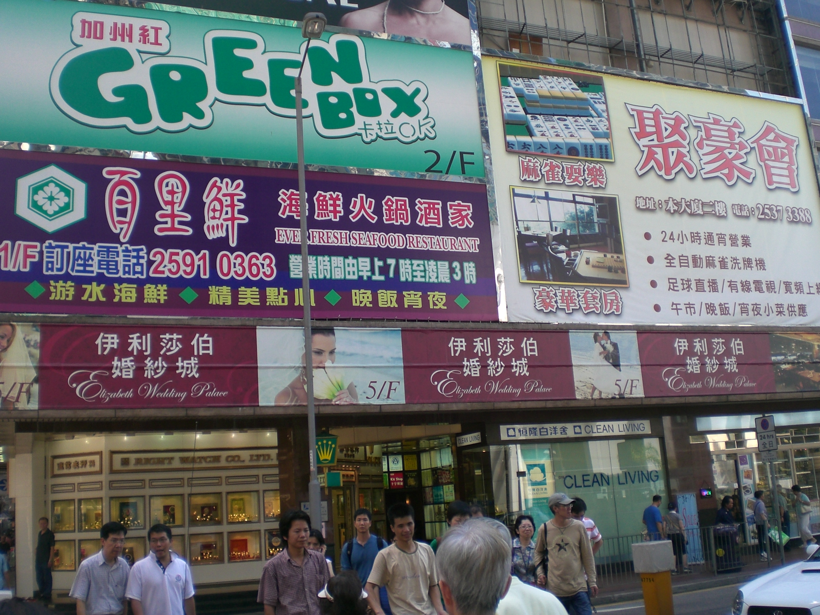 謝斐道 與 波斯富街交界, 位於灣仔區銅鑼灣. Author= RoxRox